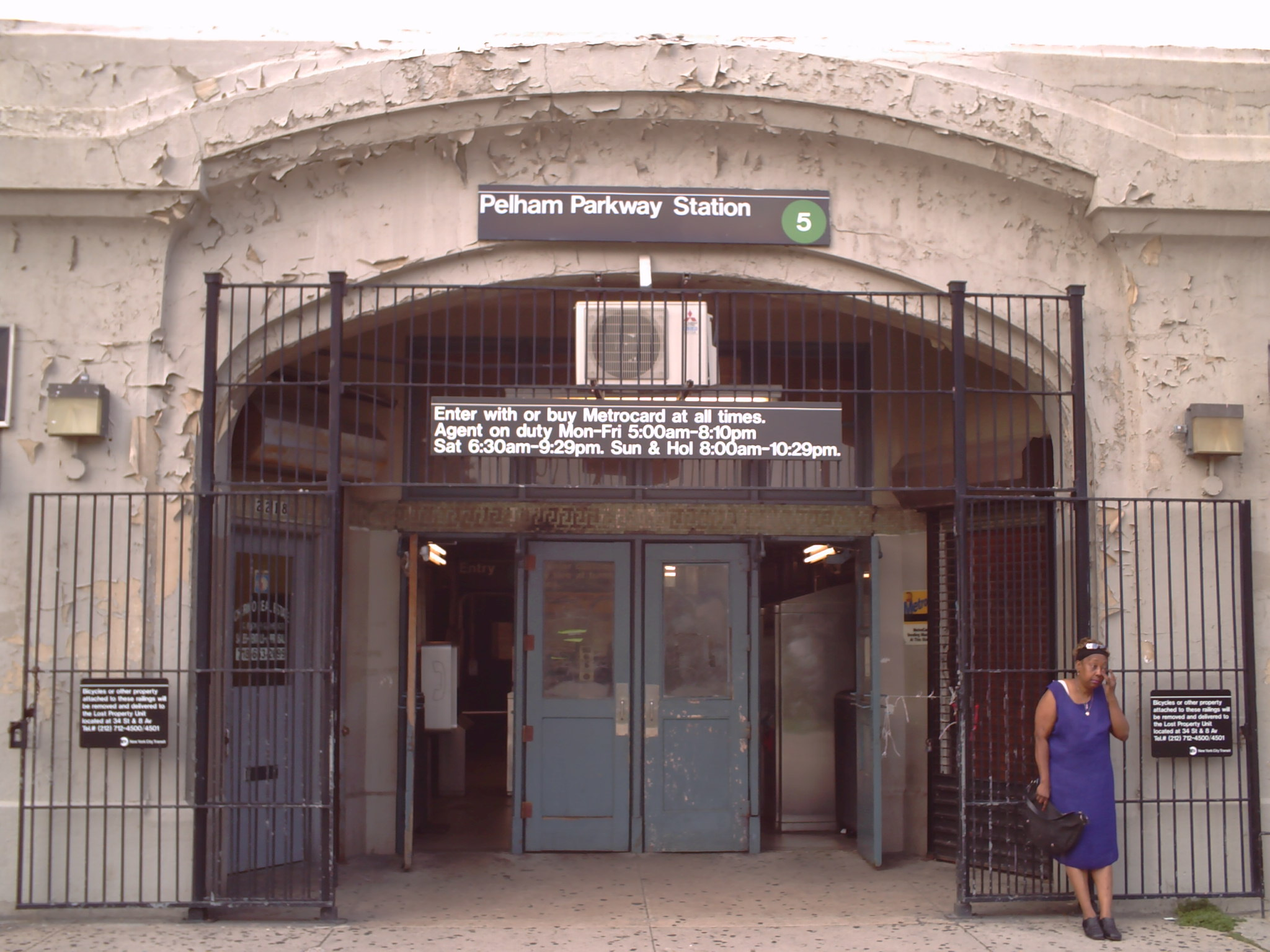 5 Train, Pelham Parkway Station, The Bronx